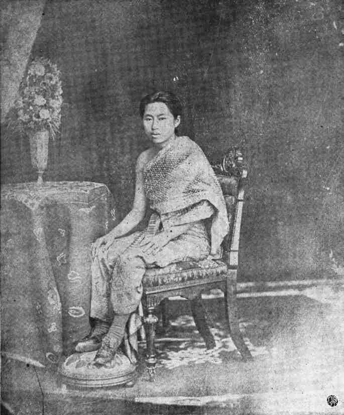 Princess Saovabhak Nariratana. Princess consort of King Rama V.